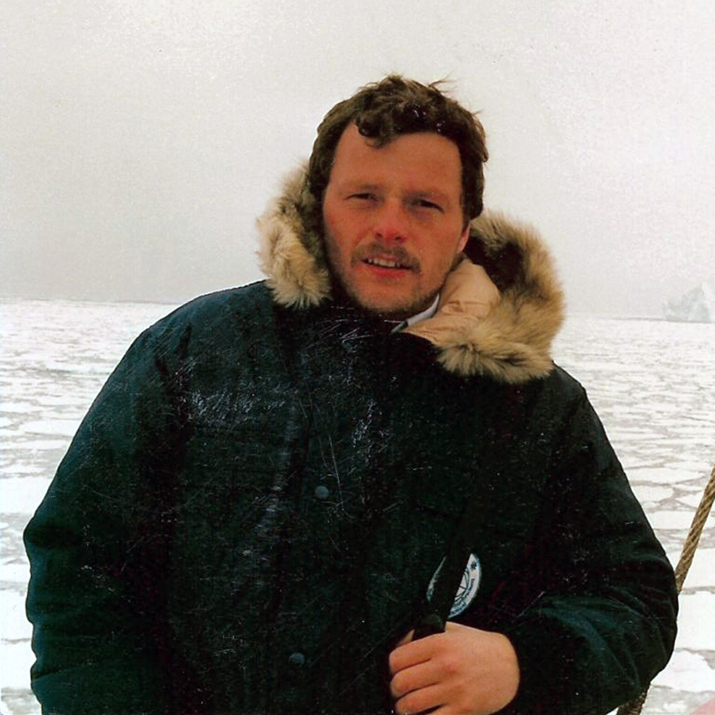 Siegfried Reiprich on the way to the Georg von Neumayer research station in Antarctica